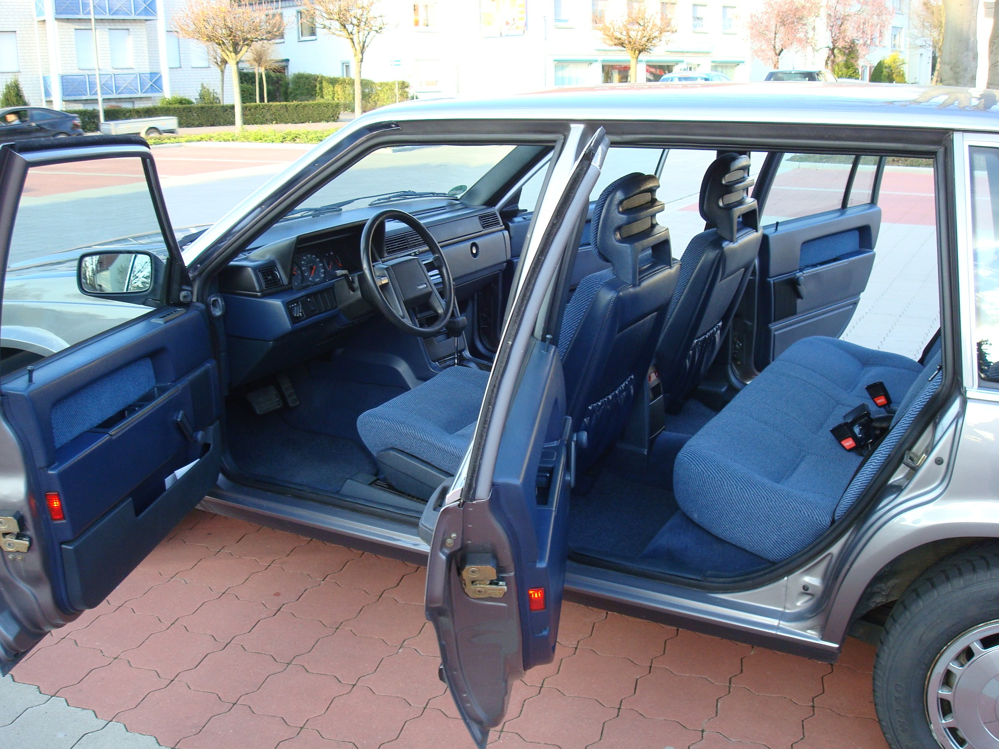 Volvo 740 GL - 1987- inside